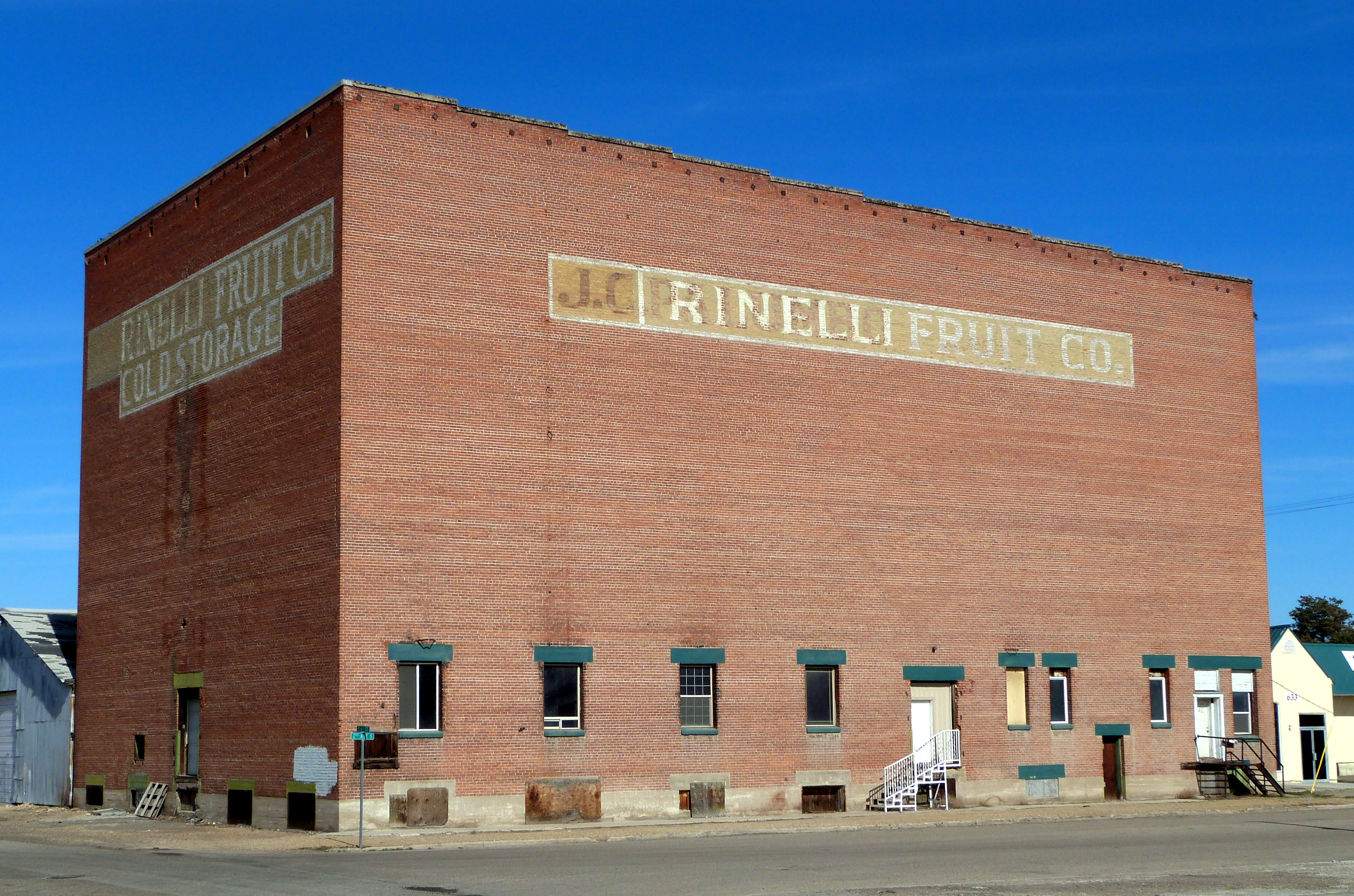 The historic J. C. Palumbo Fruit Company Packing and Warehouse Building (built 1928), located at the intersection of 6th Street and 2nd Avenue South in Payette, Idaho, United States, is listed on the US National Register of Historic Places.